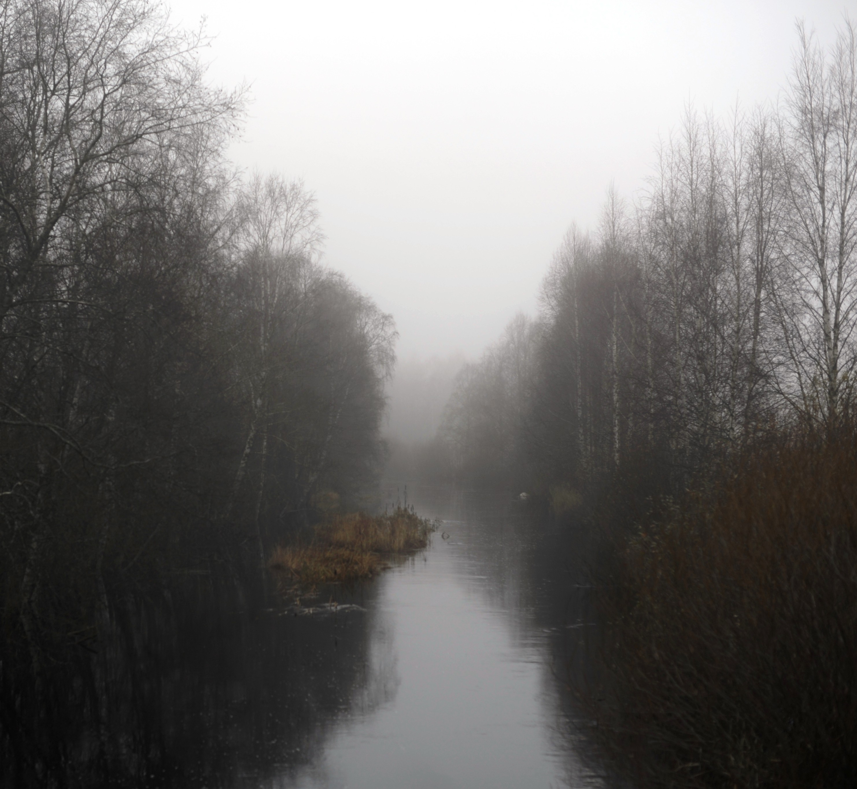 River Vilajoki, November 2012